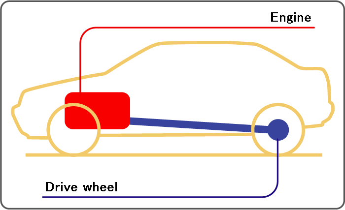 Sketch of FMR(Front-midship-engine, Rear wheel drive) or FM(Front-midship)